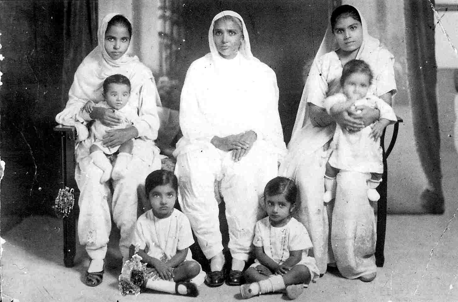 Seated Left to Right: Wife of SS Gill with son in lap, Mother of Lall Singh, Wife of BS Gill with sister's son in lap. On Floor from Left to Right: Ajmer Kaur (later Neelum Shamsi, wife of AB Shamsi), Amar Kaur (later Nickey).